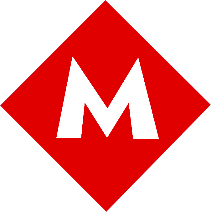 Logo of the Ankara Metro, part of the rapid transit network serving Ankara, Turkey Source: Self-drawn, based on photographs